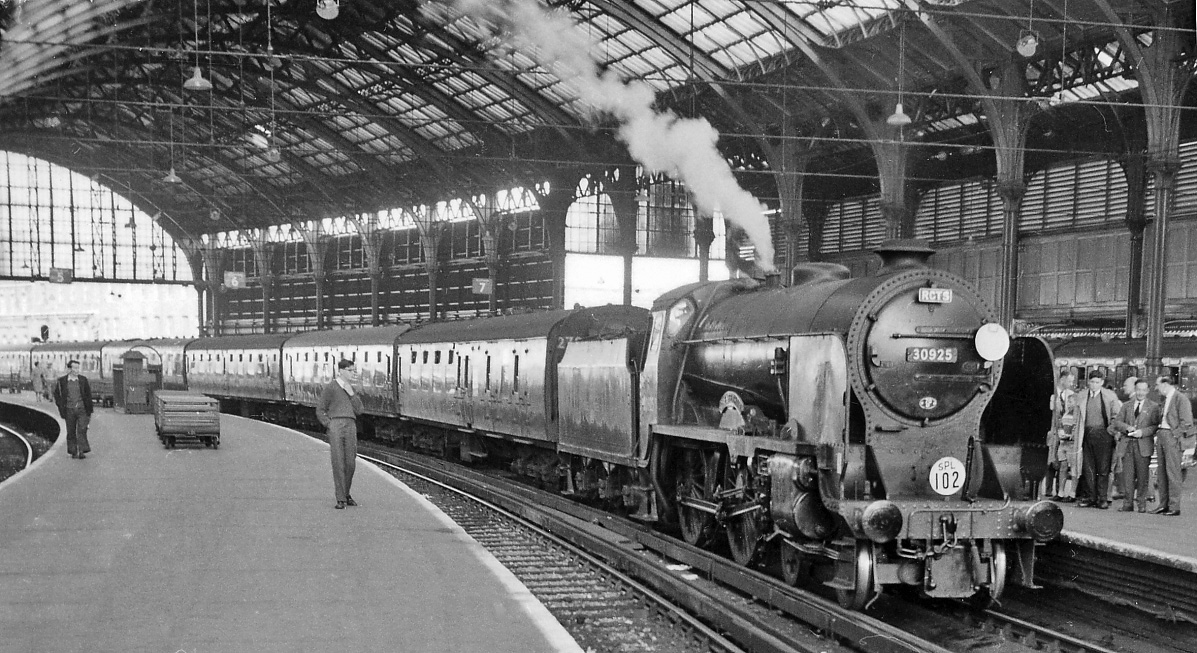 Brighton Station, with 'Schools' 30925 on Rail Tour. View outward on Platforms 8/9: ex-LB&SC terminus of main line from London. At Platform 7 is the Railway Correspondence & Travel Society 'Sussex Rail Tour', headed by SR Maunsell class V 'Schools' 4-4-0 No. 30925 'Cheltenham'; see TQ3380 : London Bridge (Central ) Station, with 'Schools' 4-4-0 on a Rail Tour.